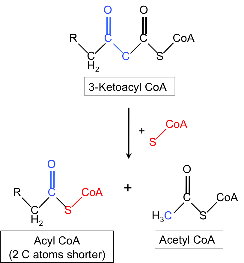 Activity of beta-ketothiolase step in fatty acid oxidation